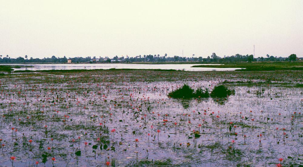 Kambodscha/Cambodia, "Lotus"-Teich/Lotus pond nahe Sambuor W Takeo (Prov. Takeo), mit Nymphaea lotus var. pubescens